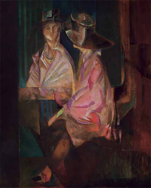 G. Yakulov. Portrait of Alisa Koonen Plywood, oil. 132 × 156 cm